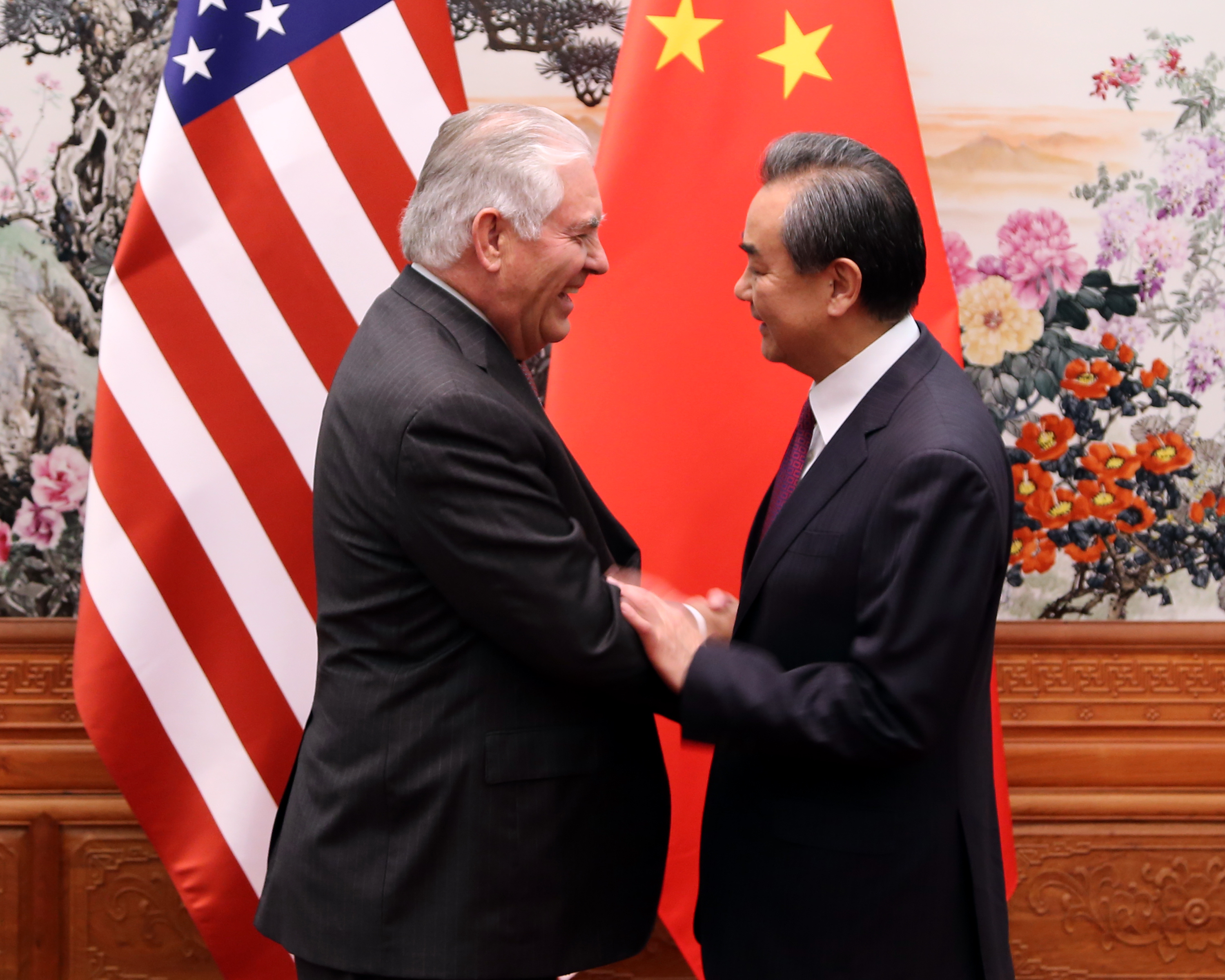 Secretary Tillerson is greeted by Chinese Foreign Minister Wang Yi at the Great Hall of the People in Beijing, China on September 30, 2017. [State Department Photo/Public Domain]